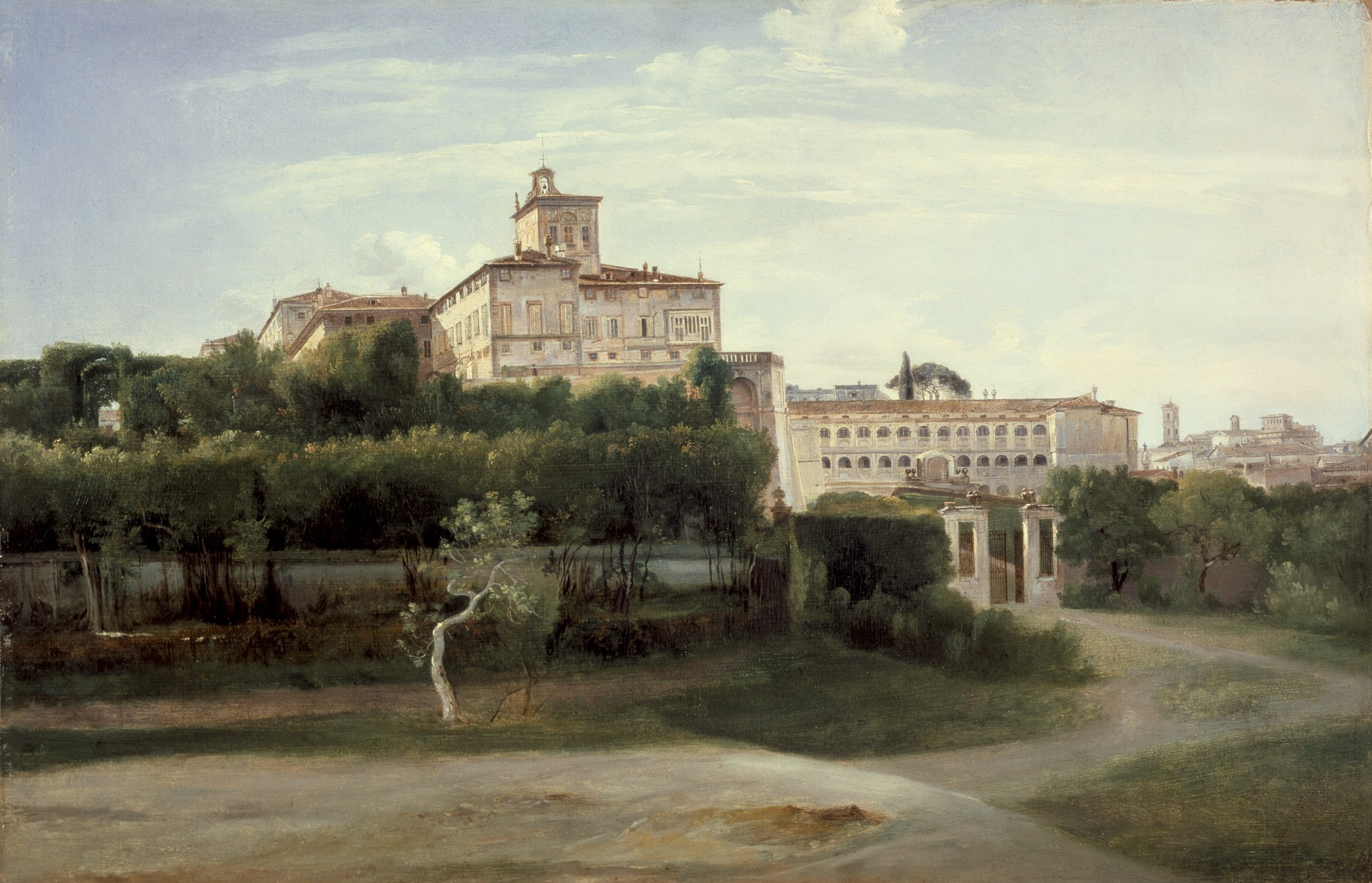 France, circa 1806 Paintings Oil on paper mounted on board Purchased with funds provided by Mr. and Mrs. Stewart Resnick and the Estate of Fletcher Jones (M.86.153) European Painting